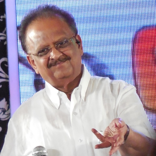 S. P. Balasubrahmanyam in 2013